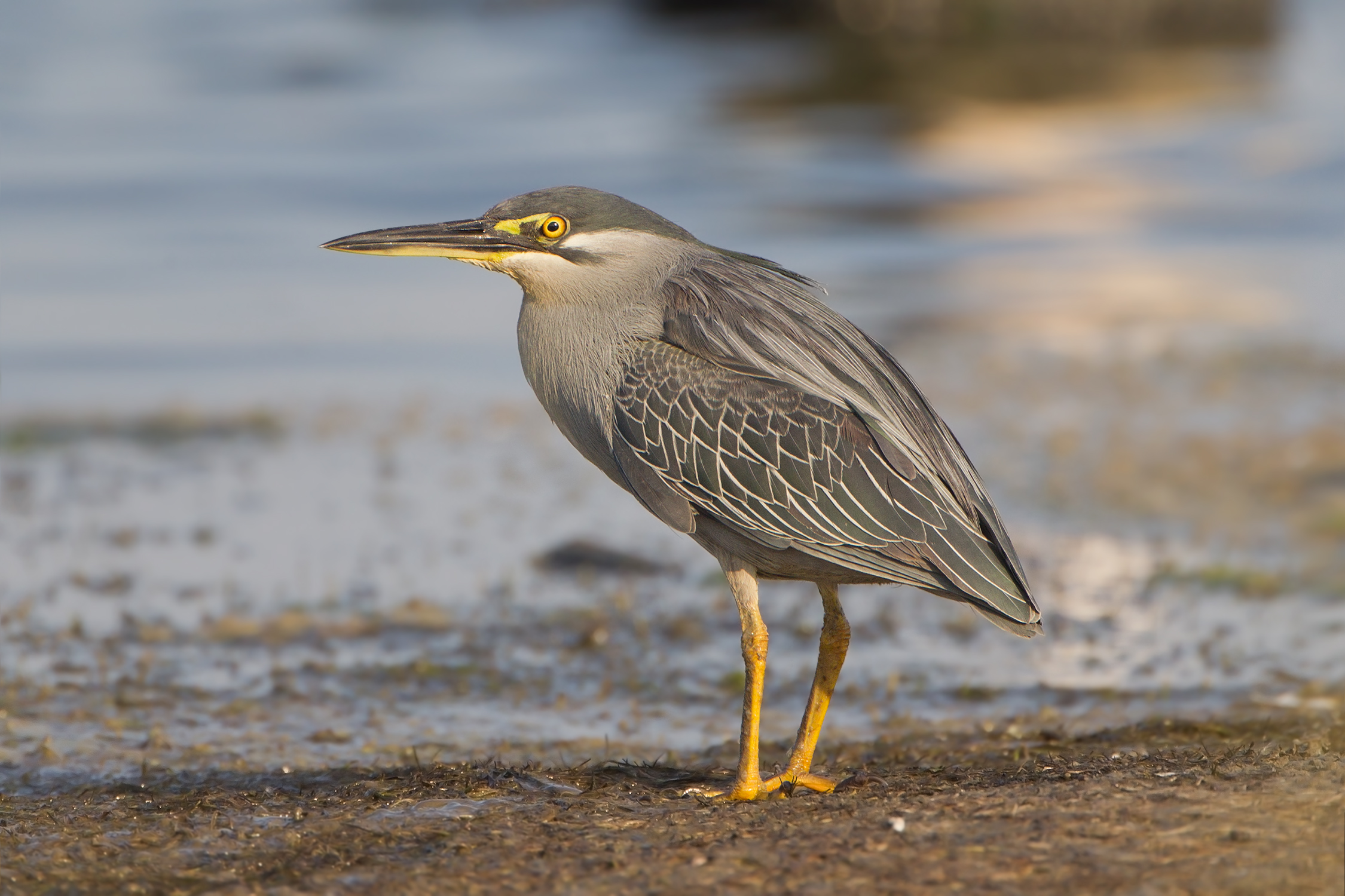 Striated Heron (Butorides striata javanica), Laem Pak Bia, Petchaburi, Thailand